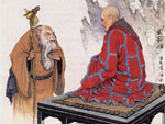 Old painting of chan master Mazu Daoyi